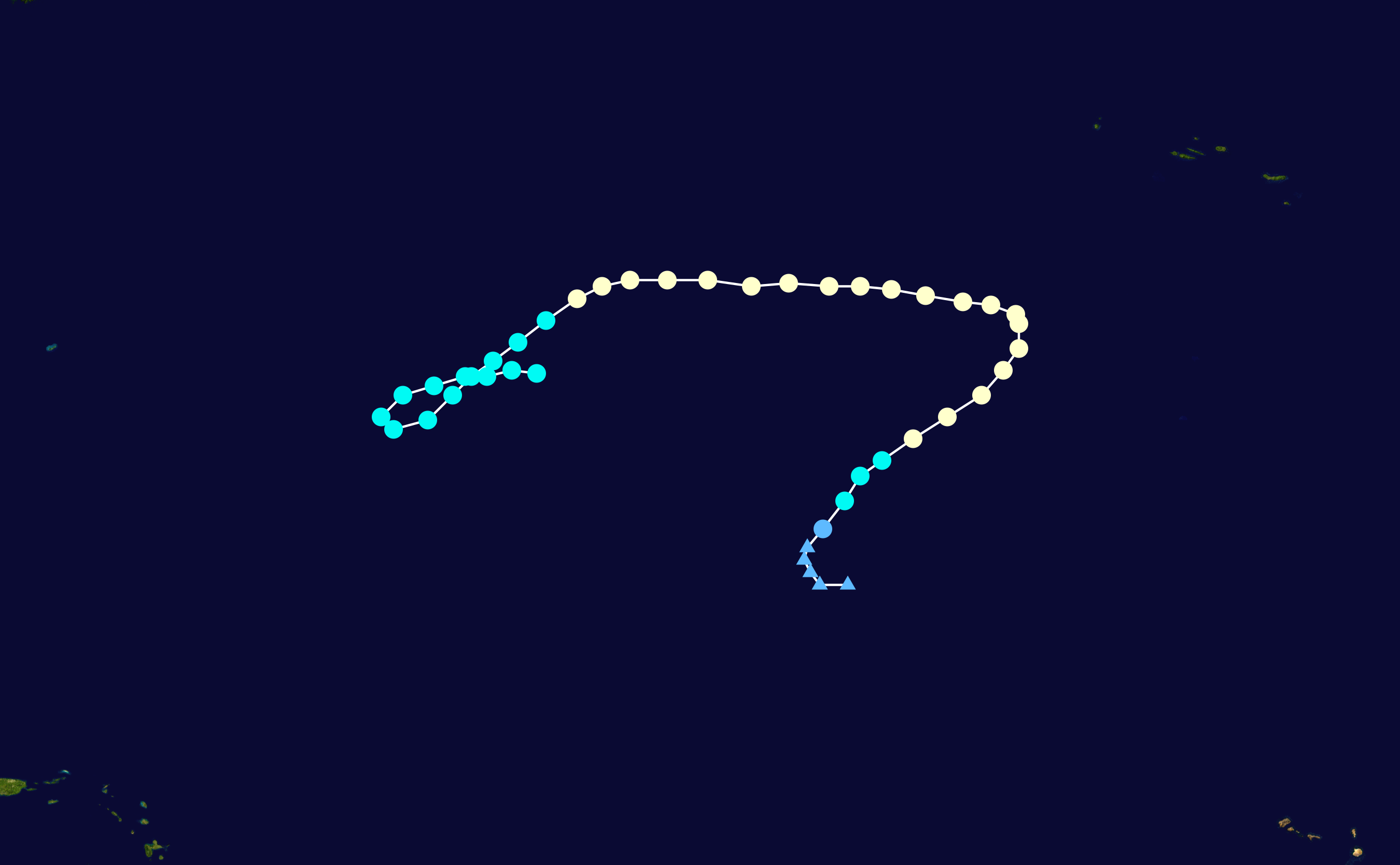 Track map of Hurricane Epsilon of the 2005 Atlantic hurricane season. The points show the location of the storm at 6-hour intervals. The colour represents the storm's maximum sustained wind speeds as classified in the Saffir–Simpson scale (see below), and the shape of the data points represent the nature of the storm, according to the legend below. Saffir–Simpson scale Tropical depression≤38 mph≤62 km/h Category 3111–129 mph178–208 km/h Tropical storm39–73 mph63–118 km/h Category 4130–156 mph209–251 km/h Category 174–95 mph119–153 km/h Category 5≥157 mph≥252 km/h Category 296–110 mph154–177 km/h Unknown Storm type Tropical cyclone Subtropical cyclone Extratropical cyclone / Remnant low / Tropical disturbance / Monsoon depression